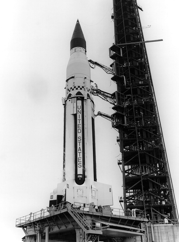 Saturn I development vehicle SA-5 on the launchpad